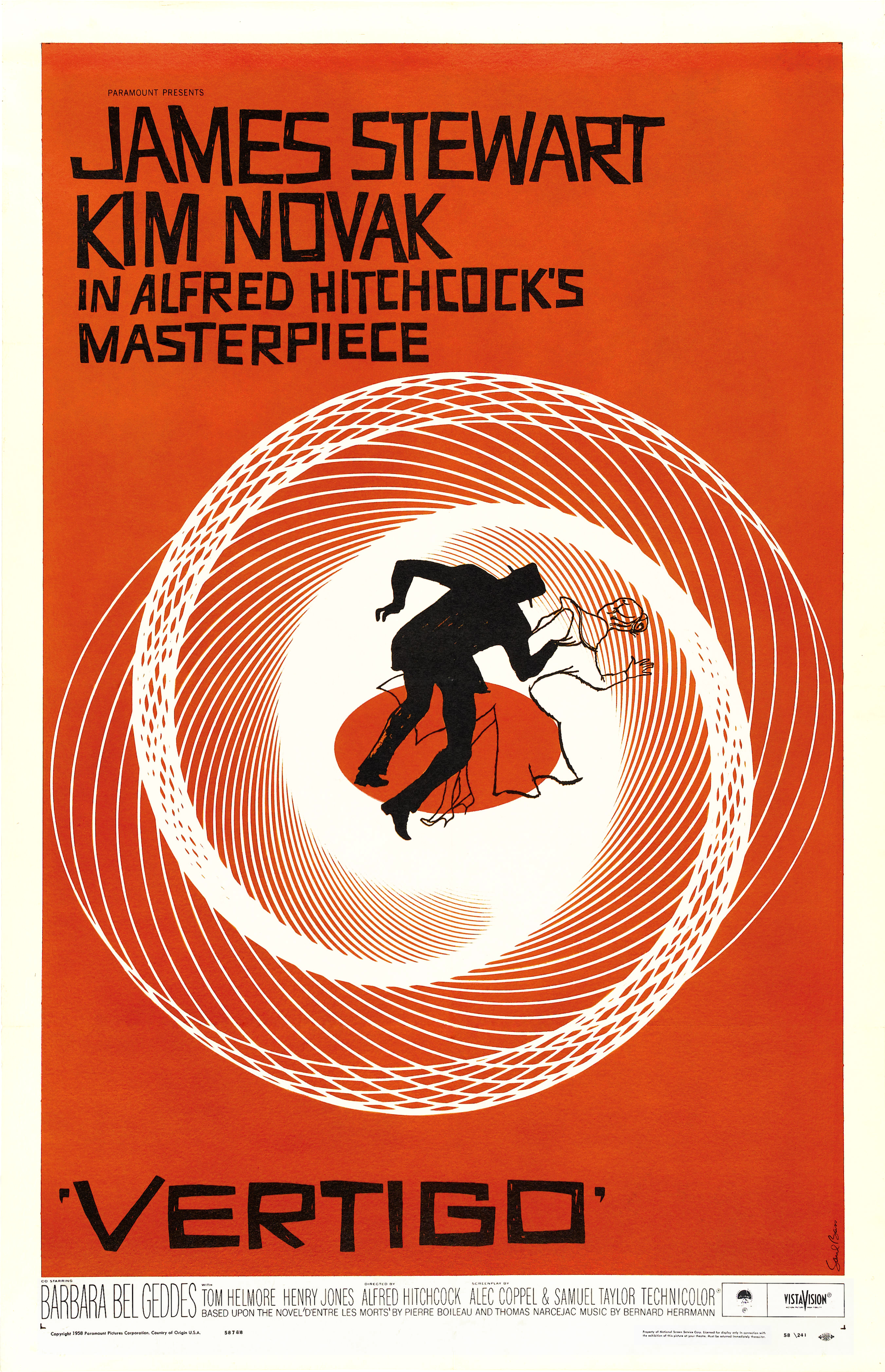 Theatrical poster for the film Vertigo. Restored by Adam Cuerden. Work done: Long fold (?) marks removed. Minor blobs fixed.